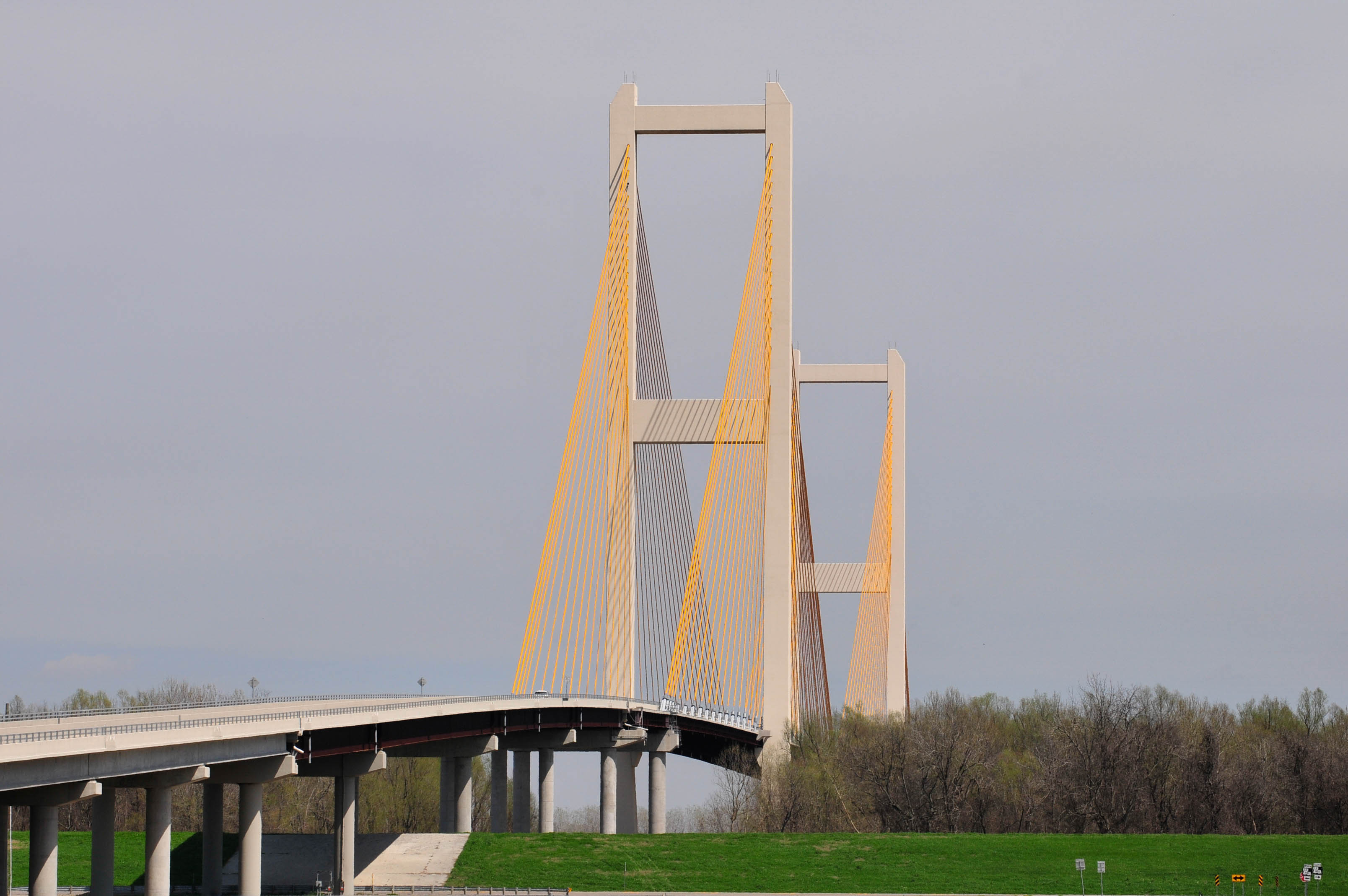 John James Audubon Bridge